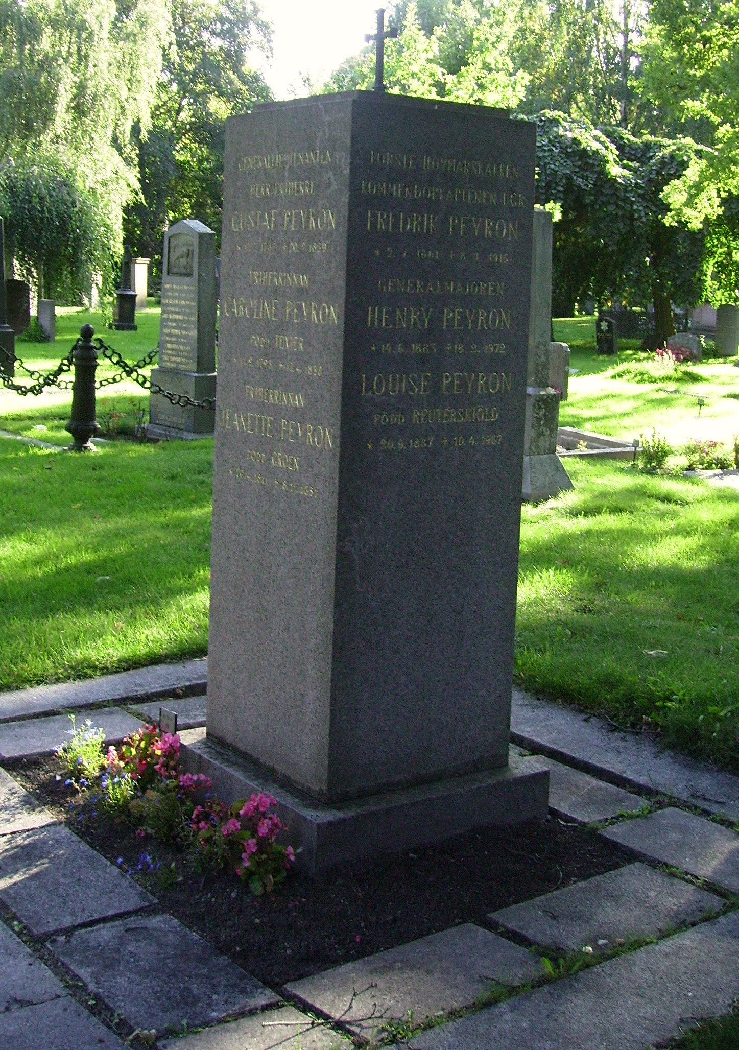 Picture of Henry Peyron's grave at Norra begravningsplatsen in Stockholm